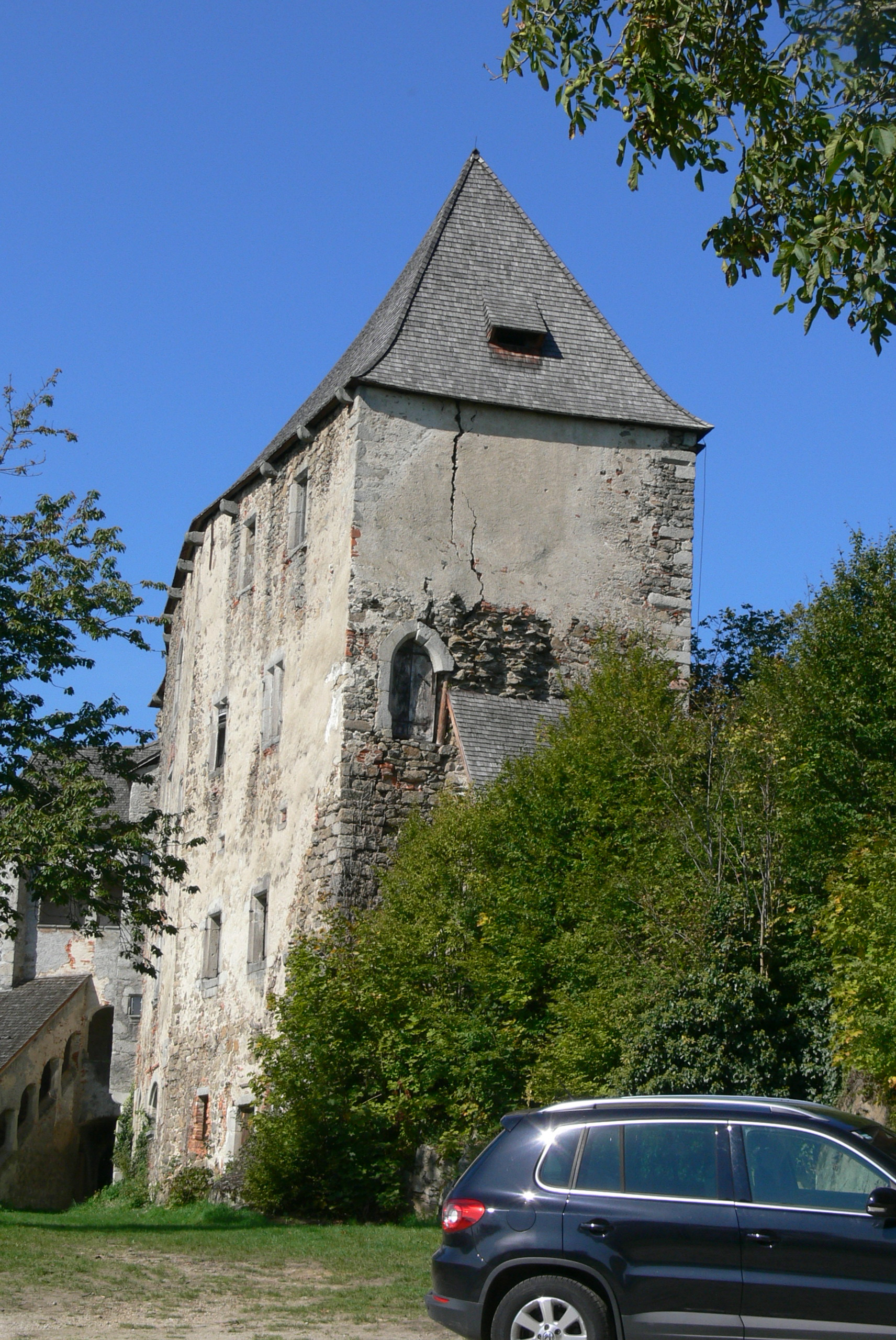 Neuhaus castle ( Upper Austria ). Old castle ( 13th/15th century ).